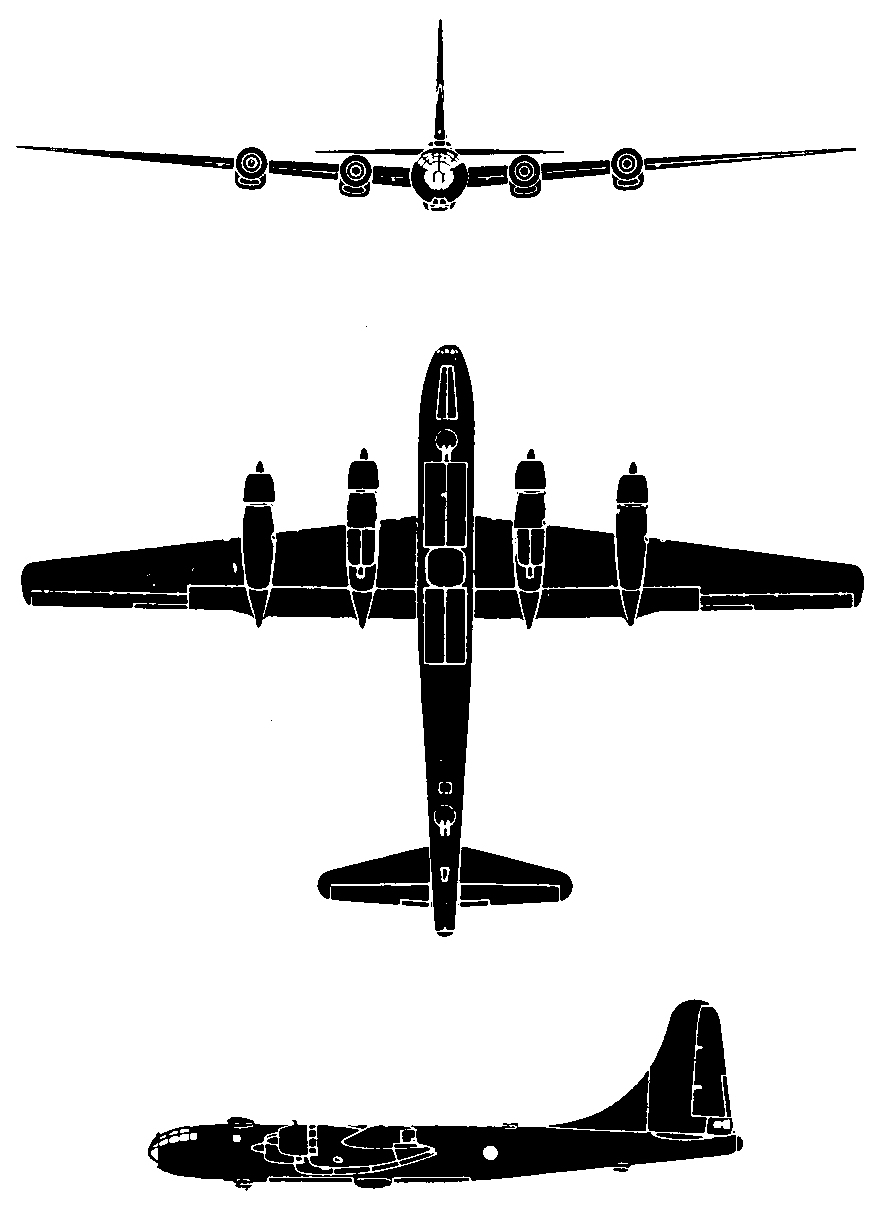 Boeing B-50D silhouette. The 1952 edition of the Observer's Book of Aircraft used 34 Crown Copyright silhouettes provided by the Controller of H.M. Stationery. An acknowledgements section on page 5 of the book identifies them by page. This image is one of those and since the publication date is pre-1957 is in the public domain.